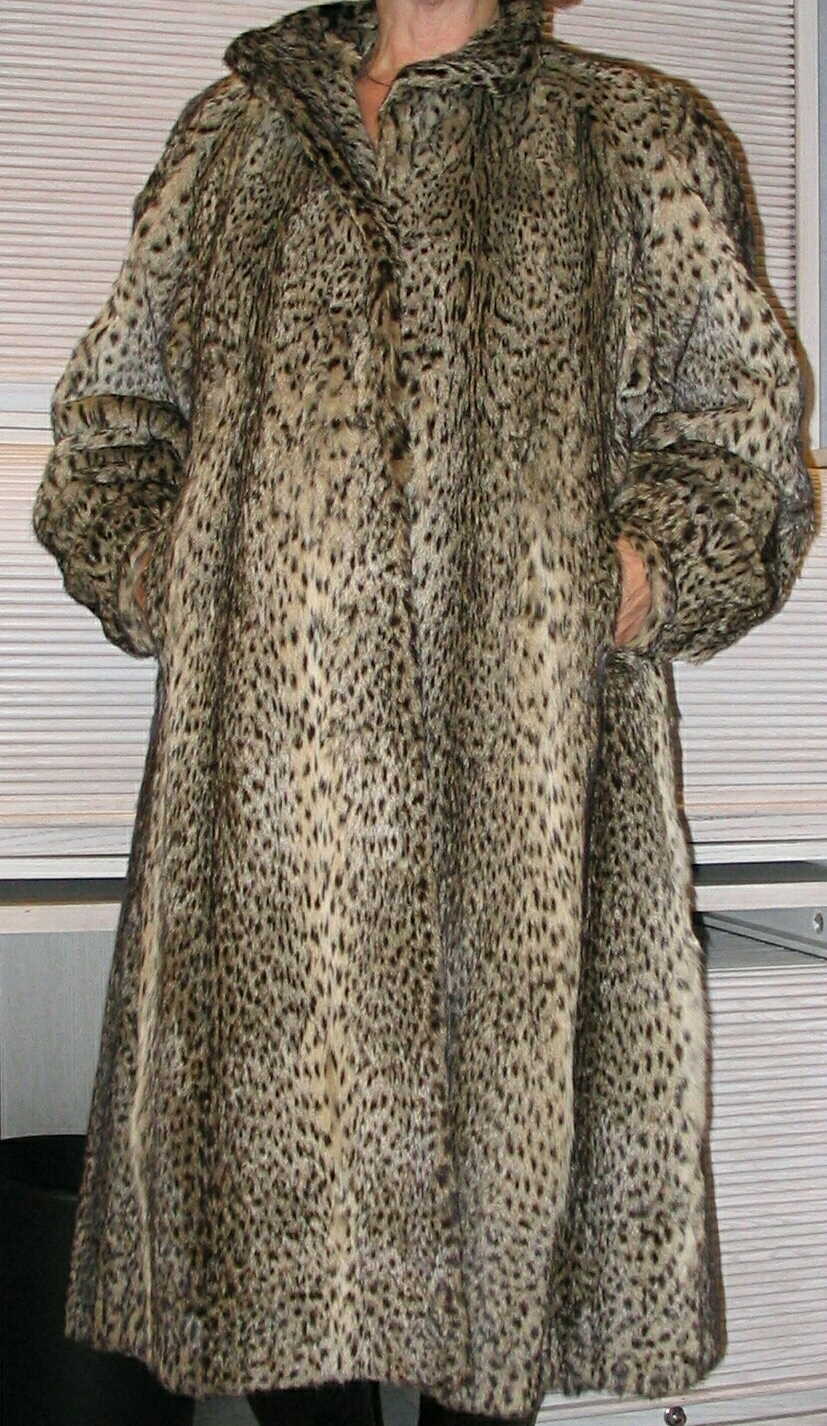 Wild cat fur coat (Leopardus geoffroyi (geoffroy's cat) Chaco, Mendoza), German work